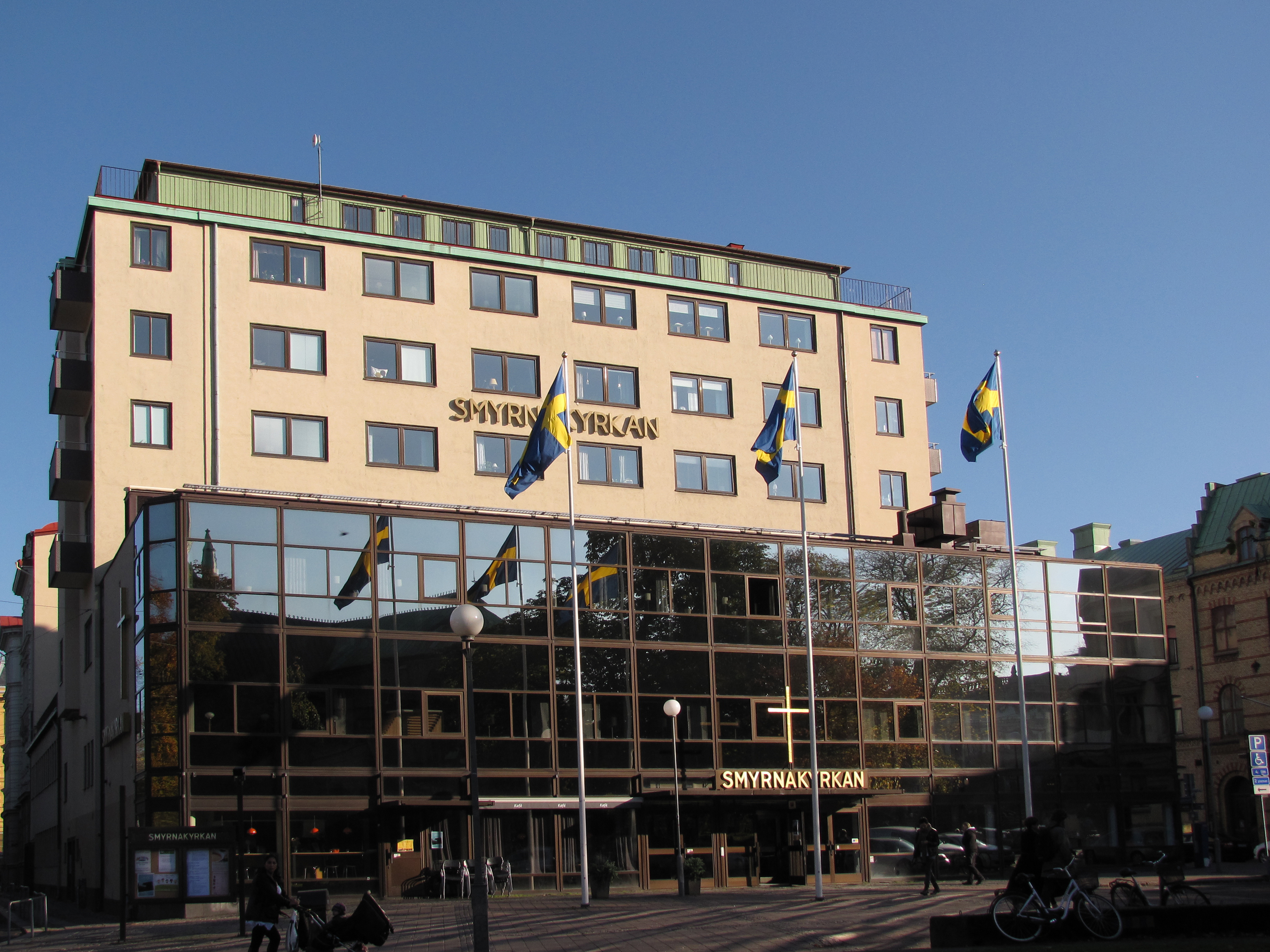 Smyrna Church in Gothenburg